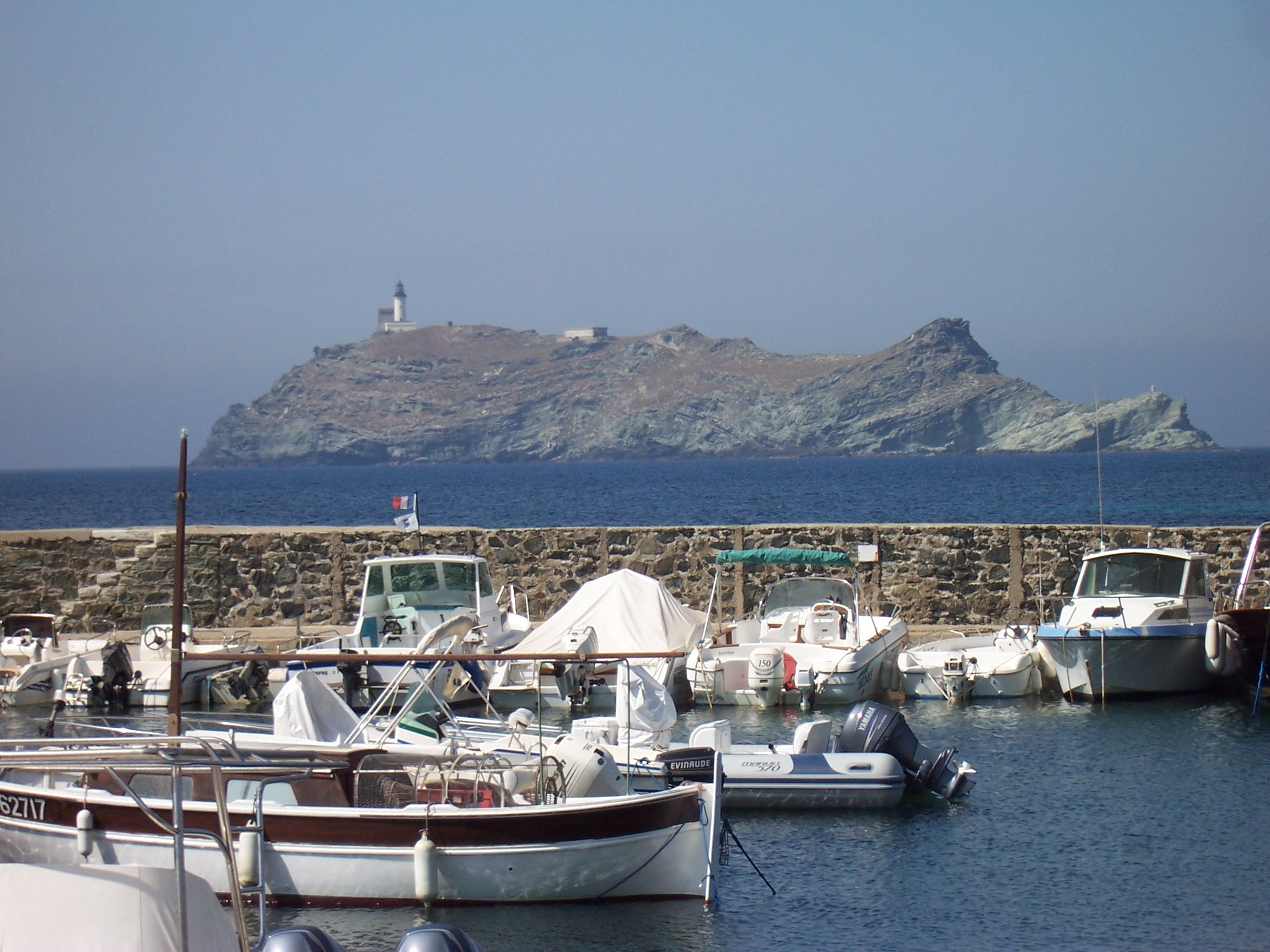 Giraglia Island and port of Barcaggio